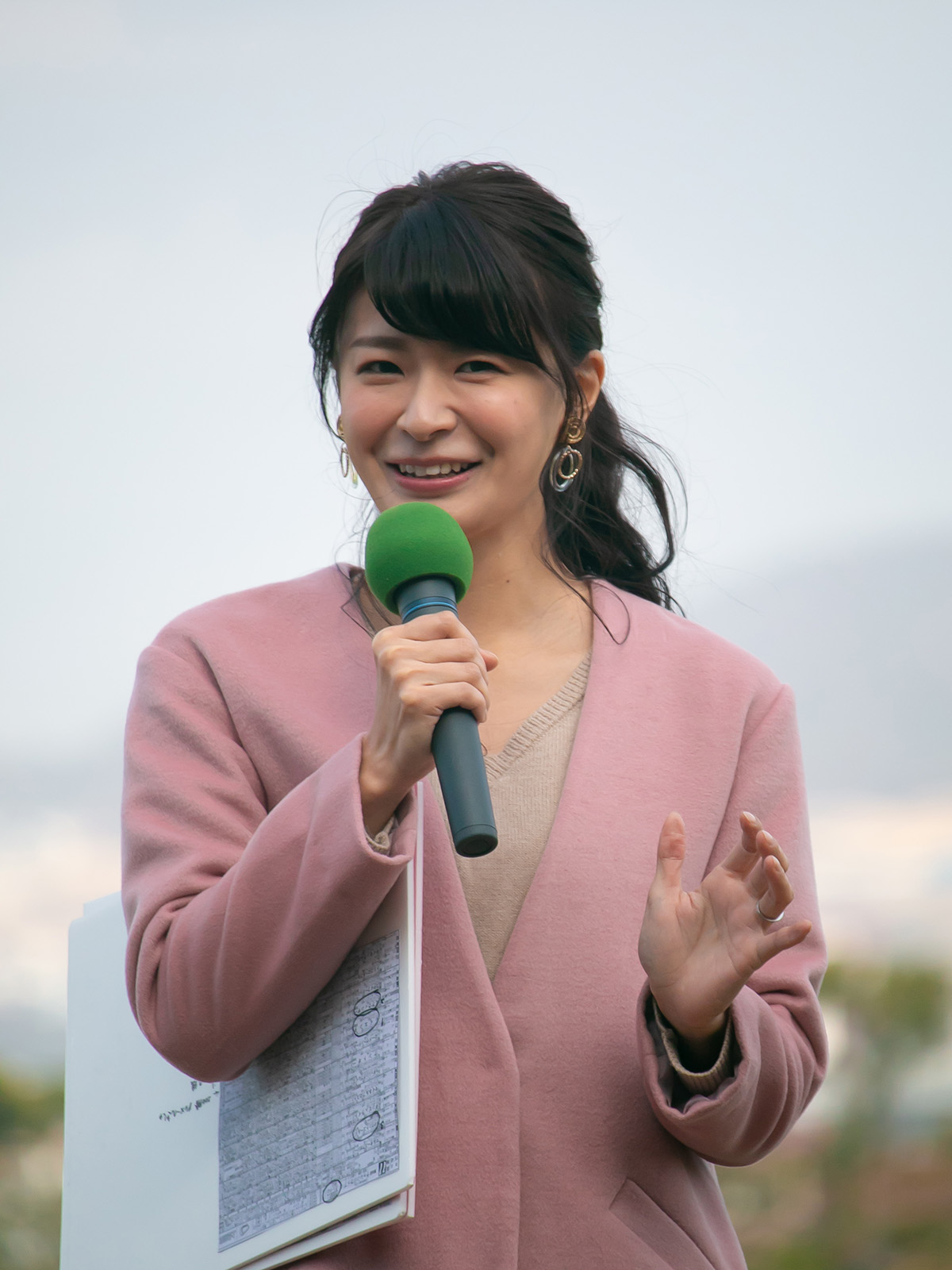 Ayako Hatta, Television personality from Japan